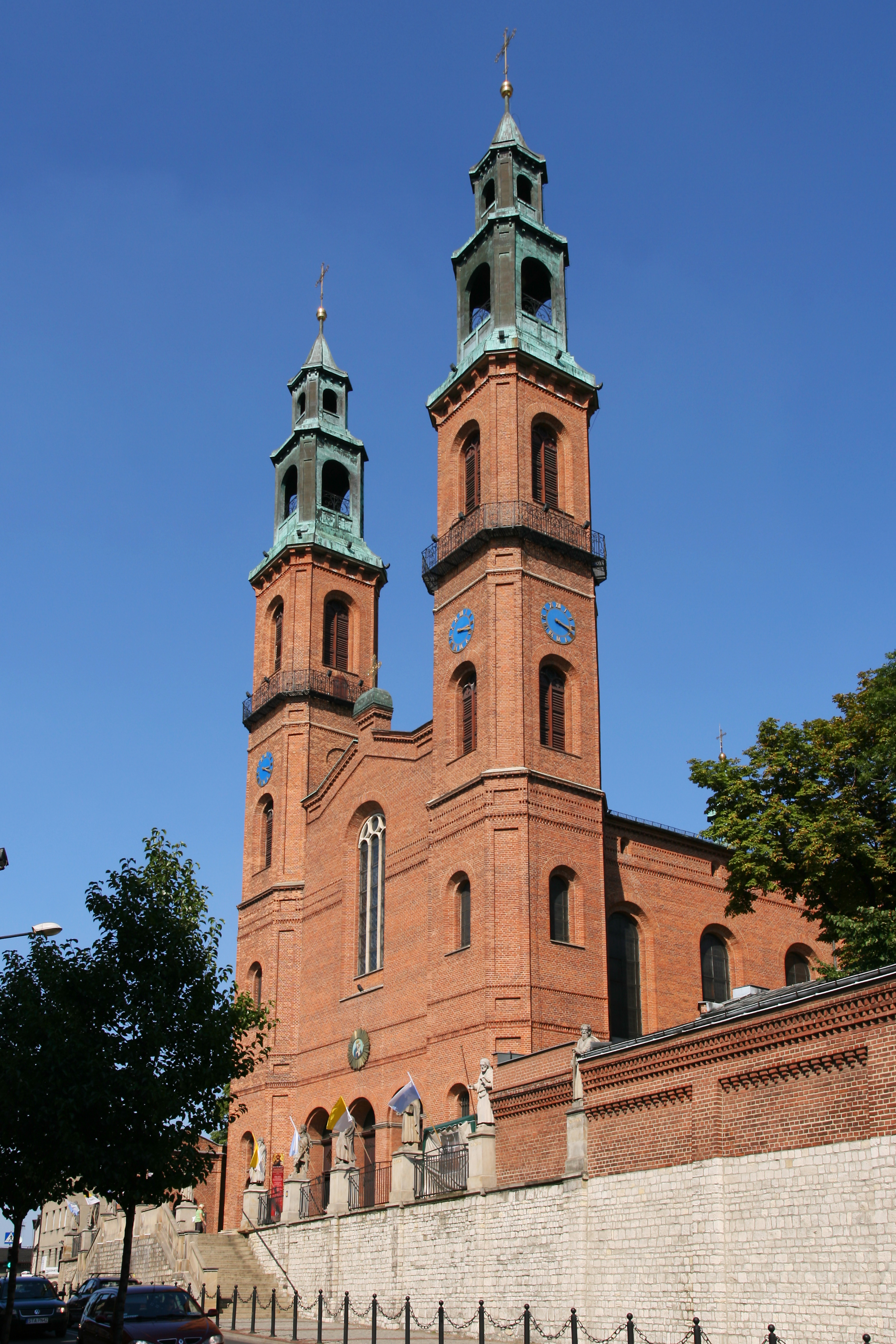 The neo-romanesque basilica of St Mary and St Bartholome in Piekary Śląskie was errected in 1842, basing on plans of Daniel Grötschel.